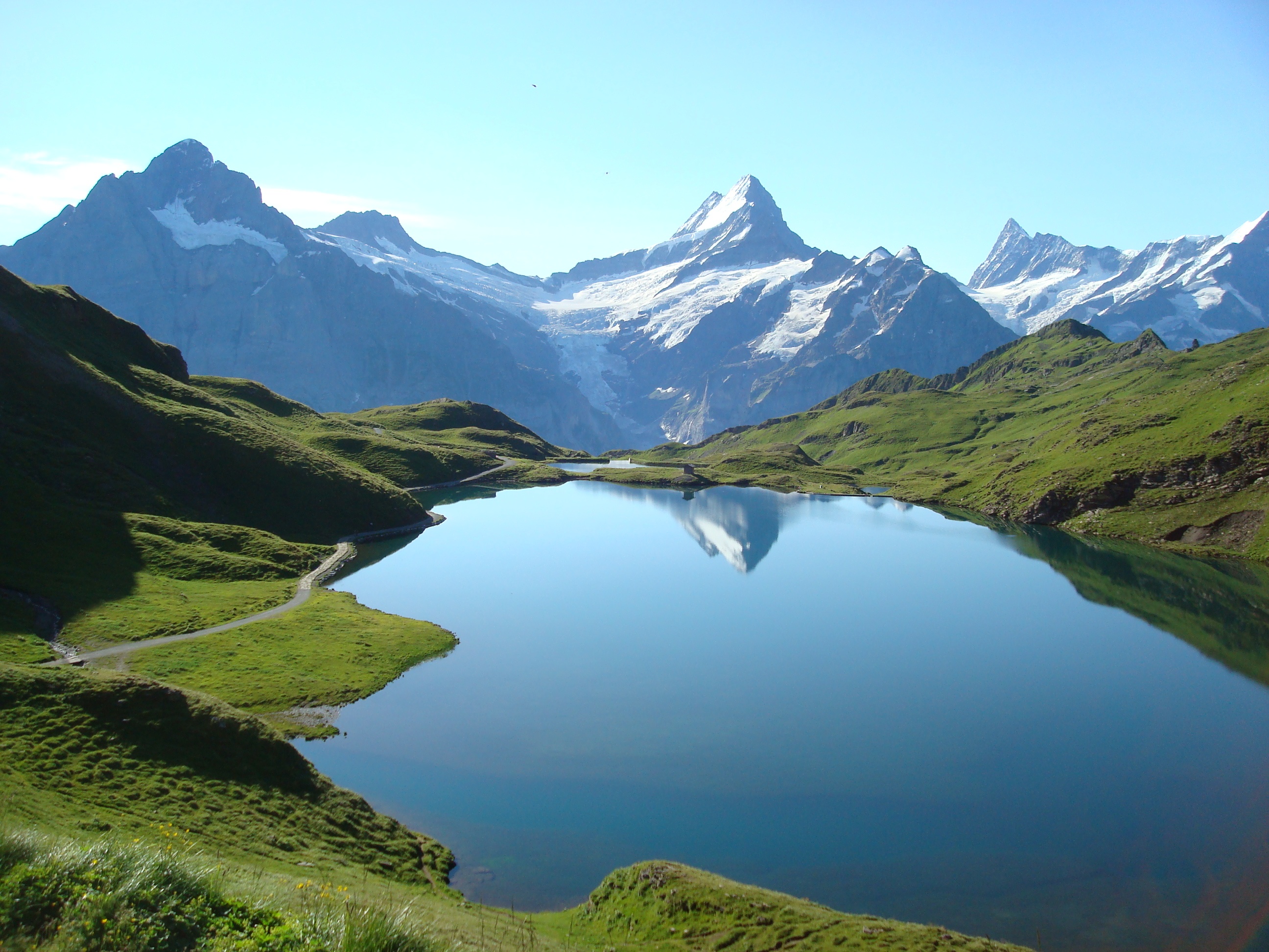 Bachalpsee, Bernese Oberland. Left to right: Wetterhorn, Bärligstock, Schreckhorn (with Lauteraarhorn left behind), Finsteraarhorn (with Agassizhorn close to the right) and the ridge leading to the Fiescherhörner-Group.